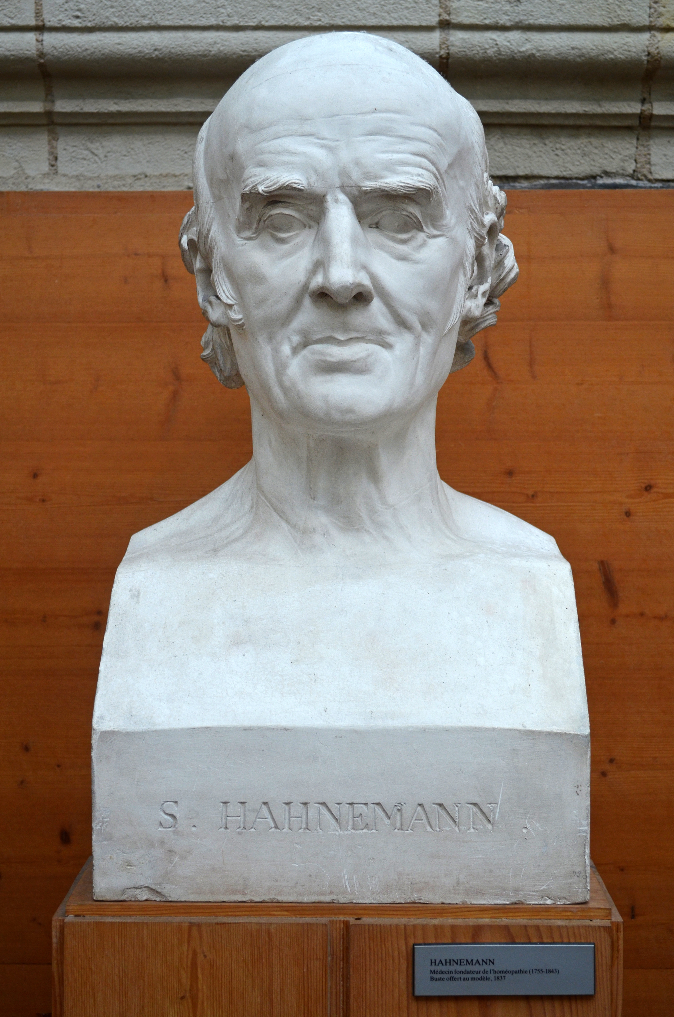 Bust of Samuel Hahnemann by french sculptor David d'Angers (1837). Exhibited in David d'Angers gallery, Angers, France